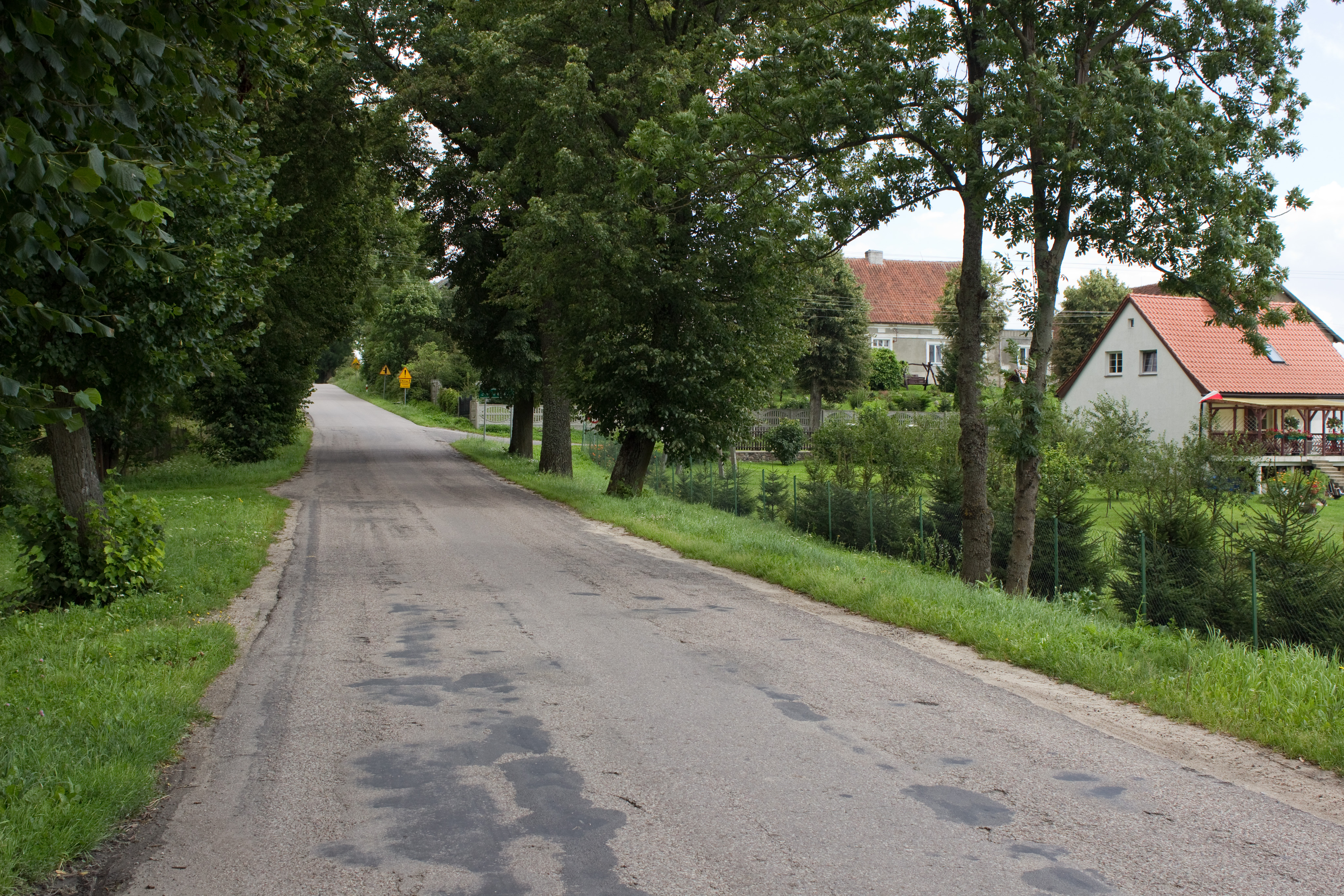 Kominki, gmina Kolno, powiat olsztyński, Warmian-Masurian Voivodeship